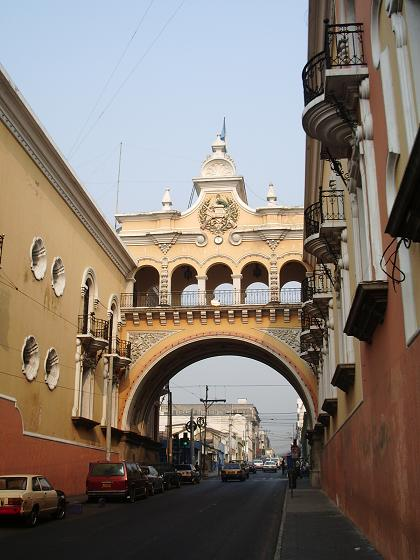 Photograph of the National Post Office Building in Guatemala City in April 2004